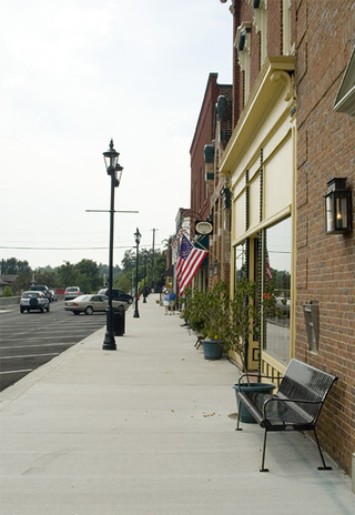 Midway, located midpoint between Lexington and Frankfort, is a town seeing its rebirth. A streetscape project in 2005 revitalized Main Street and has spurred major new development along its building stock. Photograph taken by Sherman Cahal; it can also be found on his personal gallery.